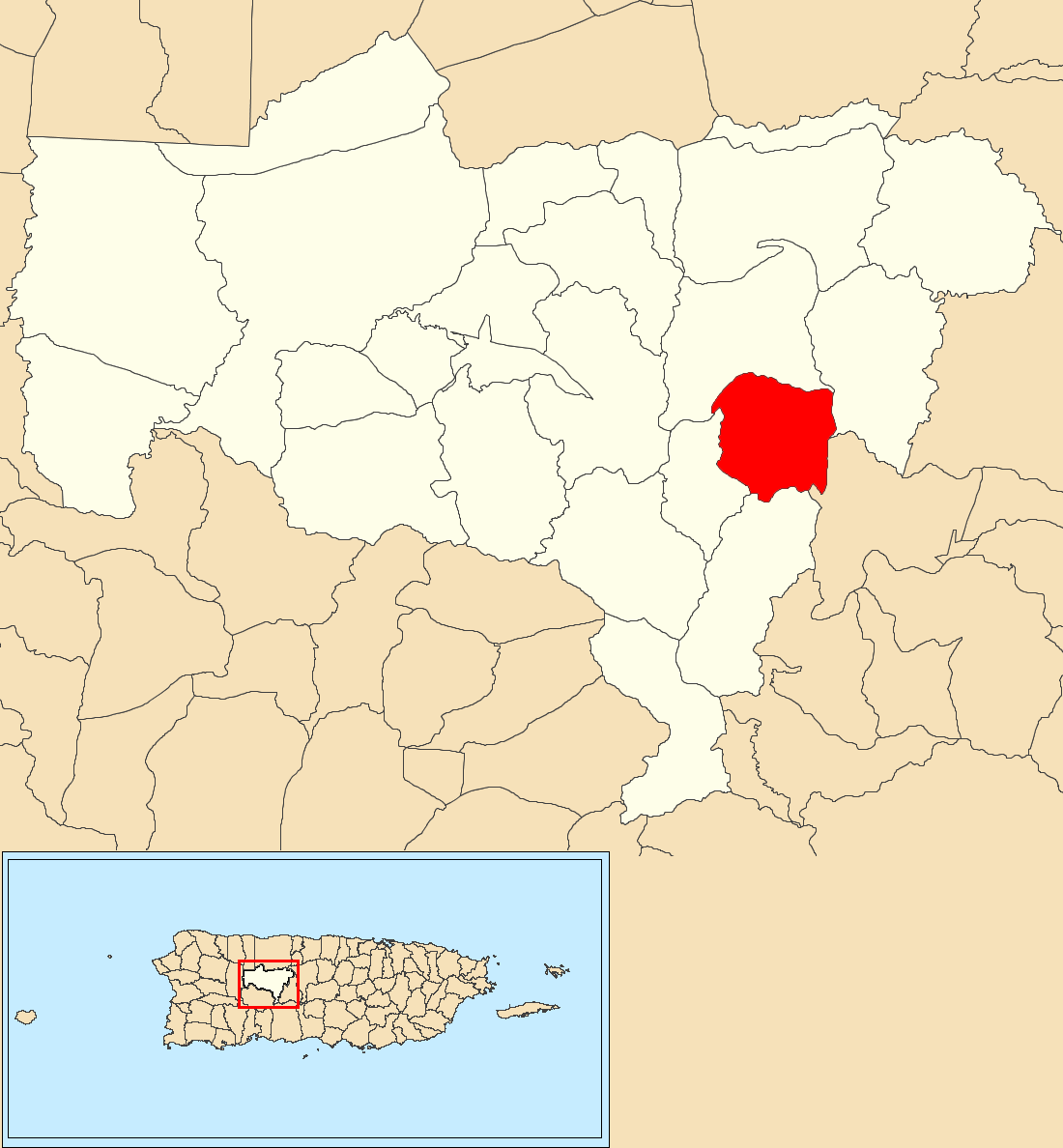 Caonillas Arriba, Utuado, Puerto Rico locator map